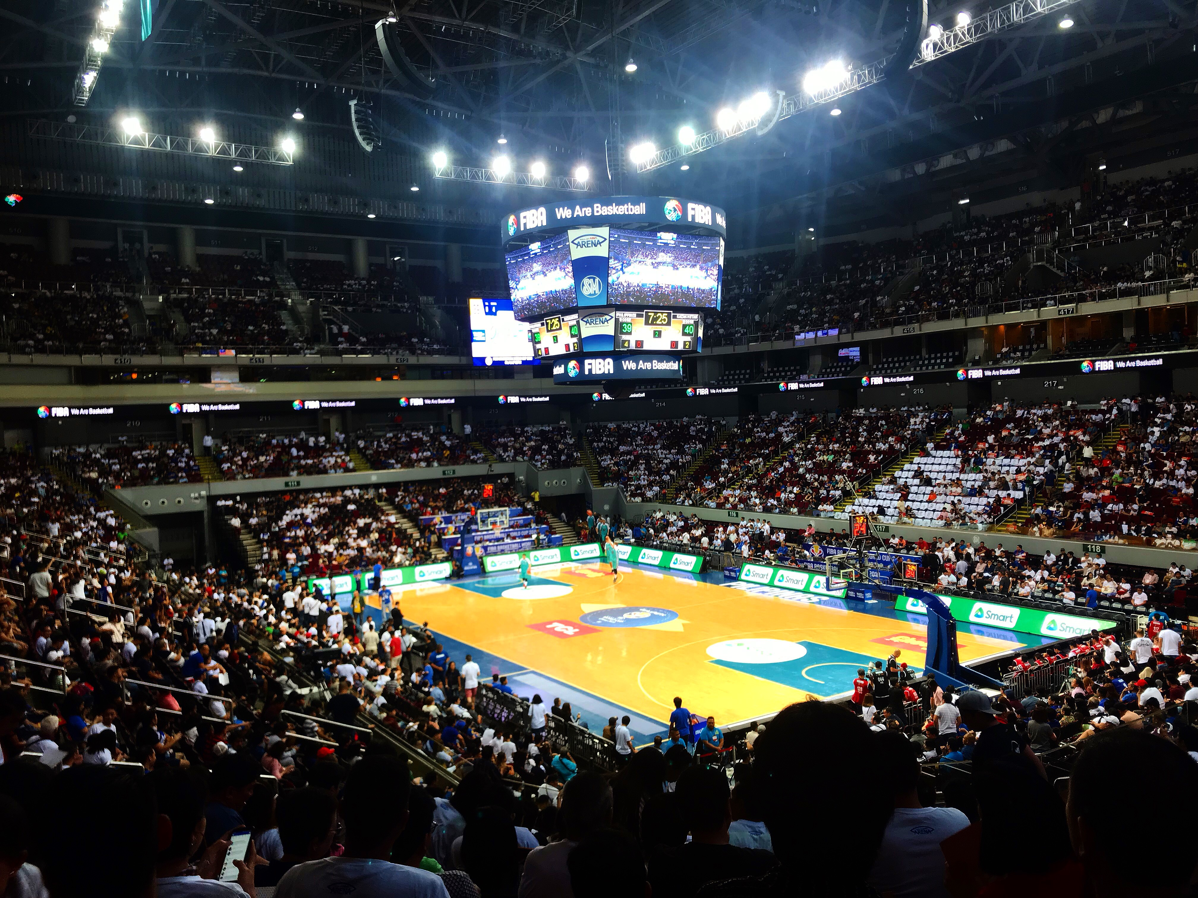 Mall of Asia Arena in 2018.